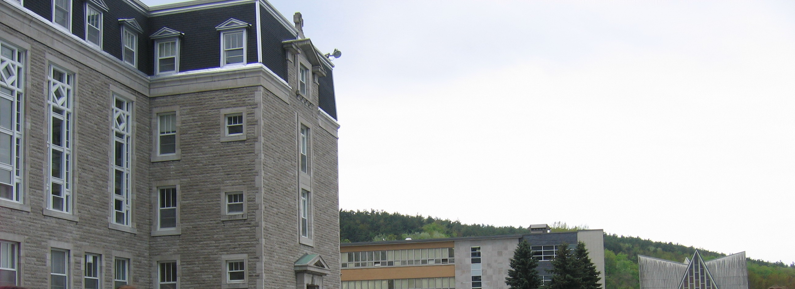 Collège Bourget